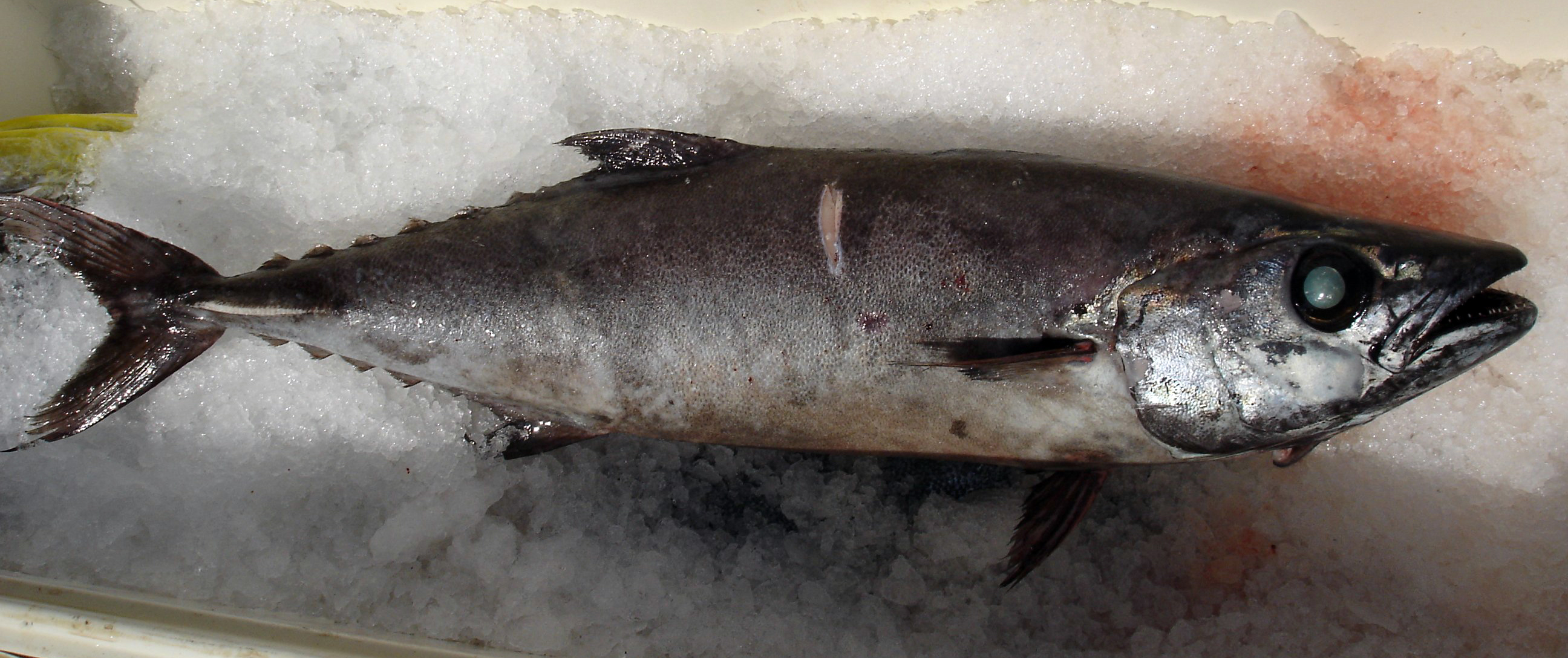 Longline fishing research on the NOAA Ship OSCAR ELTON SETTE. Escolar on ice caught during longline operations.